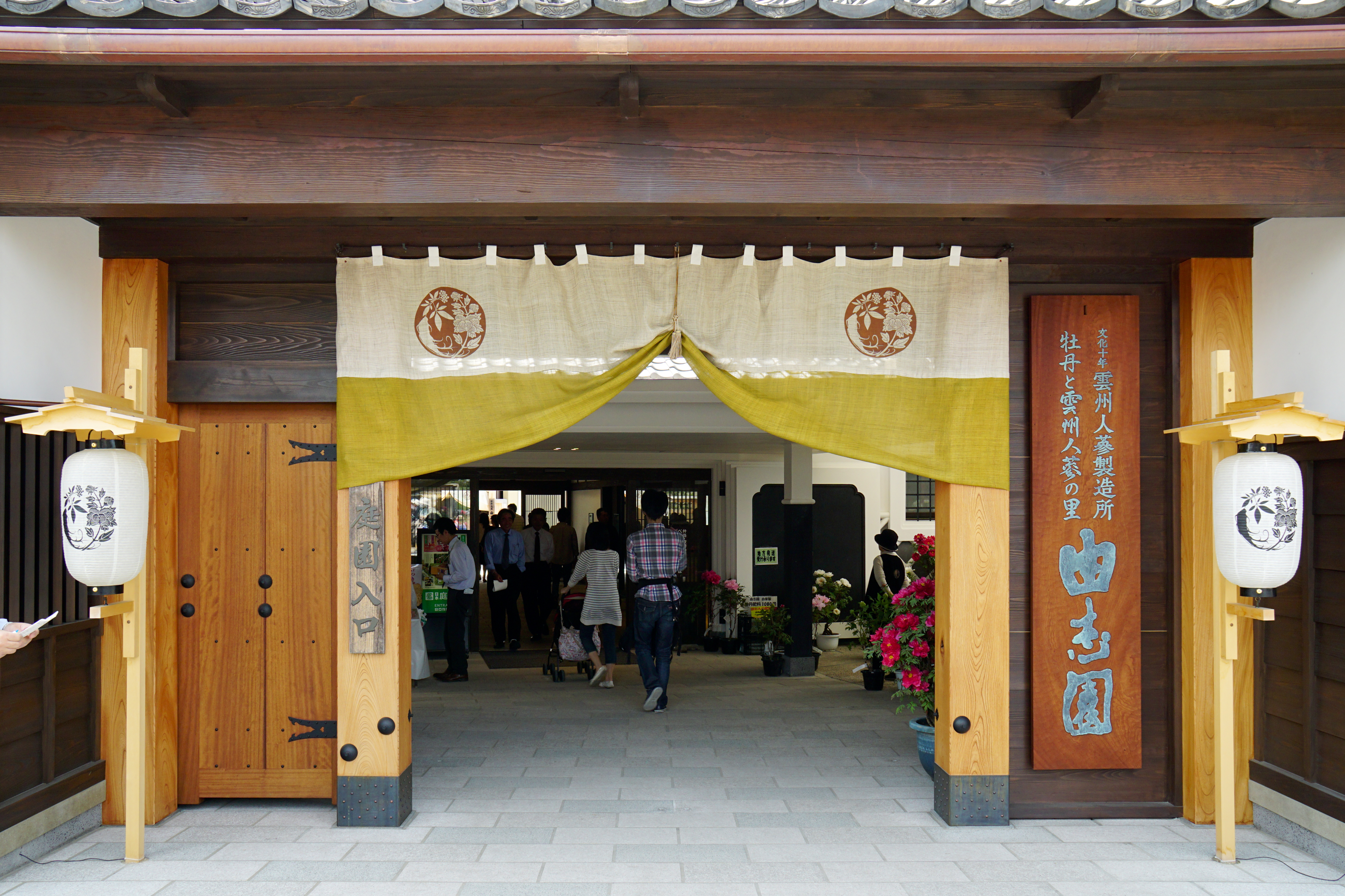 Yuushien in Matsue, Shimane prefecture, Japan.